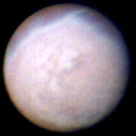 Image of Triton, a moon of Neptune, taken by Voyager 2 at a distance of 4 million kilometers (2.5 million miles) at 4 a.m. EDT on August 22, 1989